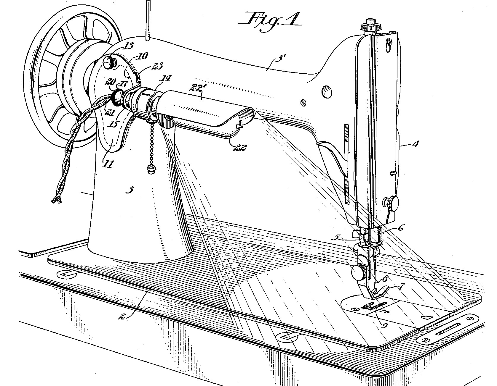 Image 1 from US patent 1488233, inventor Diehl, invention "Singerlight"